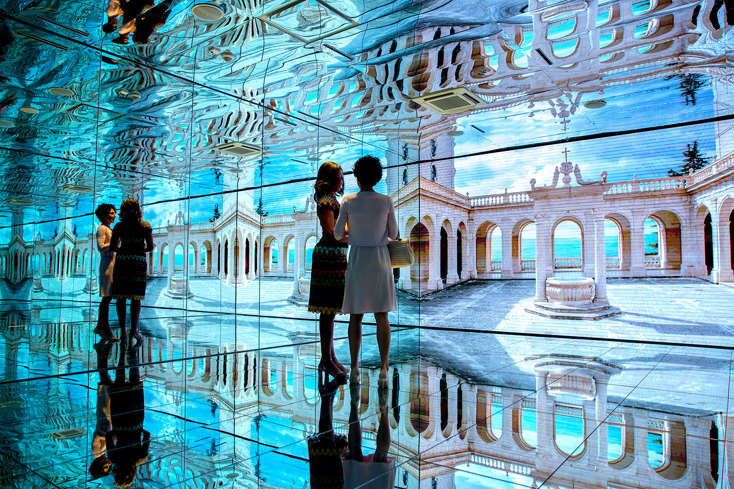 June 18, 2015 "The First Lady and First Lady Agnese Landini of Italy tour the Mirror Room in the Italian Pavilion at the World Expo in Milan, Italy." (Official White House Photo by Amanda Lucidon)